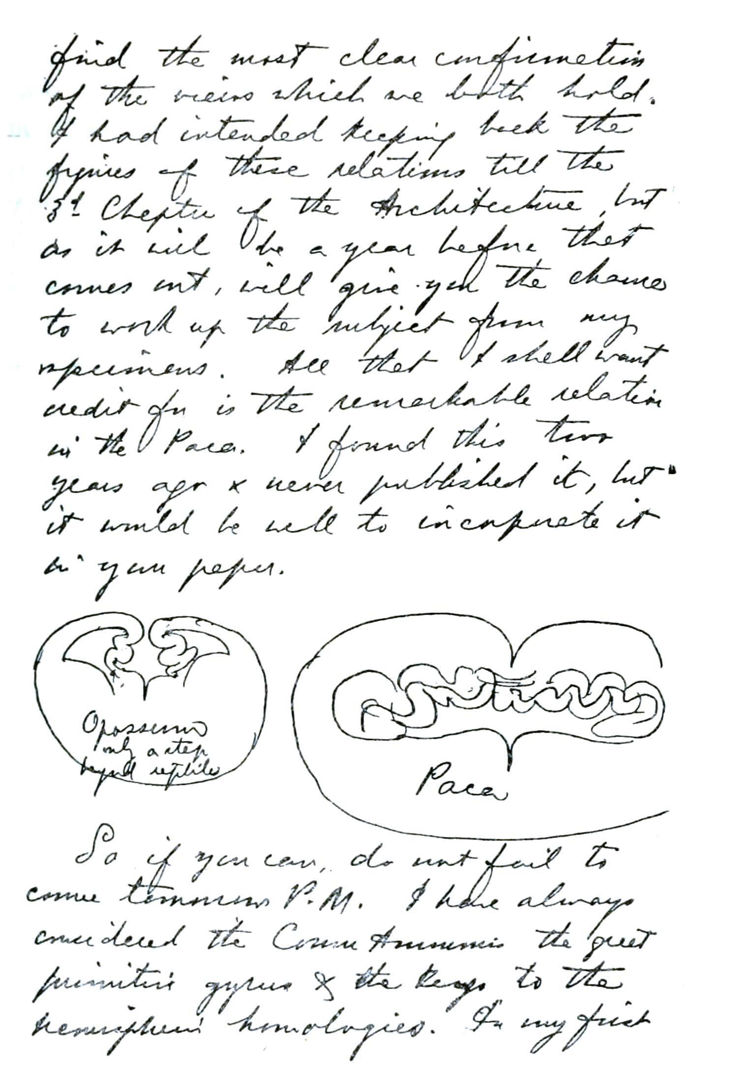 Letter from E. C. Spitzka to Shobal V. Clevenger